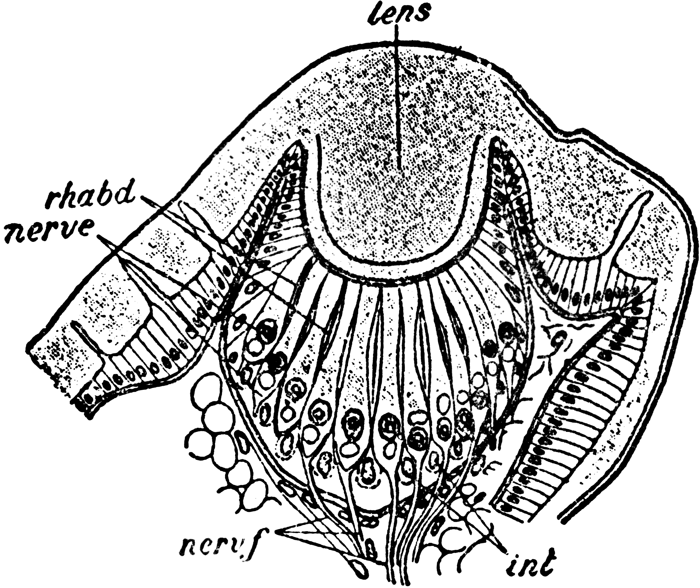 Section through the lateral eye of Euscorpius italicus. lens, Cuticular lens. nerv. c, Retinal cells (nerve-end cells). rhabd, Rhabdomes. nerv. f, Nerve fibres of the optic nerve. int, Intermediate cells (lying between the bases of the retinal cells).(After Lankester and Bourne from Parker and Habwell’s Text book of Zoology, Macmillan & Co.)